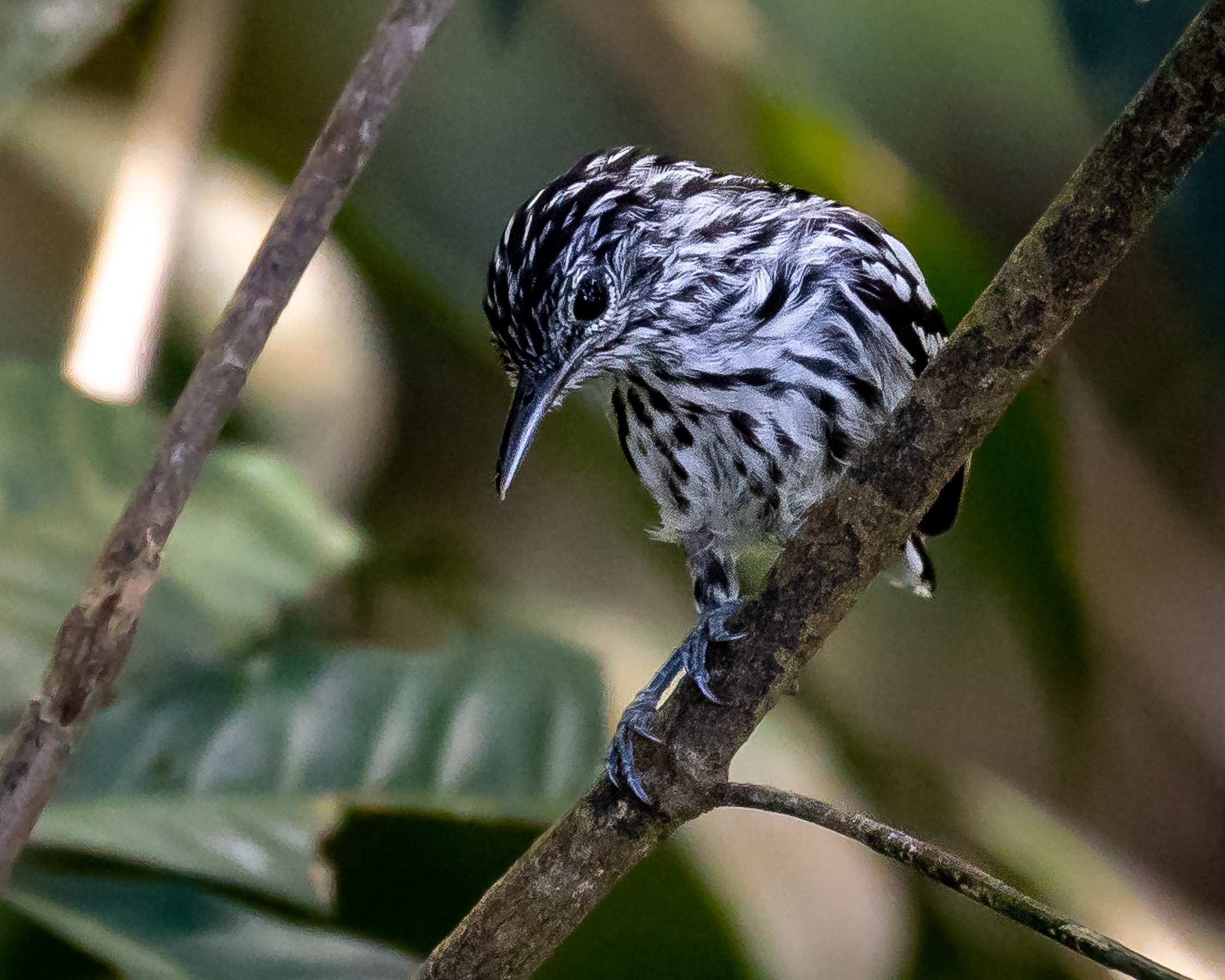 Klages's antwren (male); Anavilhanas islands, Novo Airão, Amazonas, Brazil